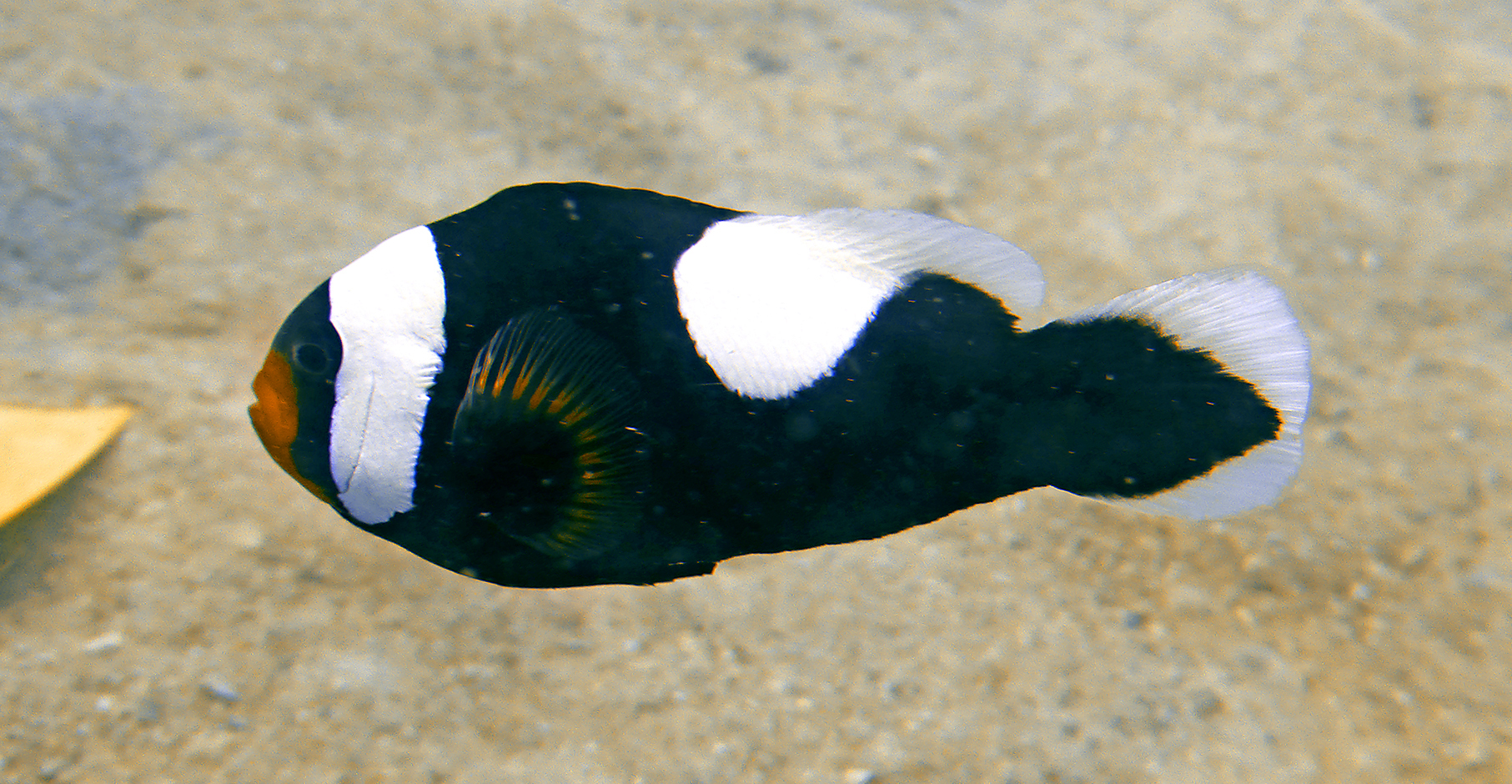 Amphiprion polymnus From diving sites around Ko Tao, Thailand.